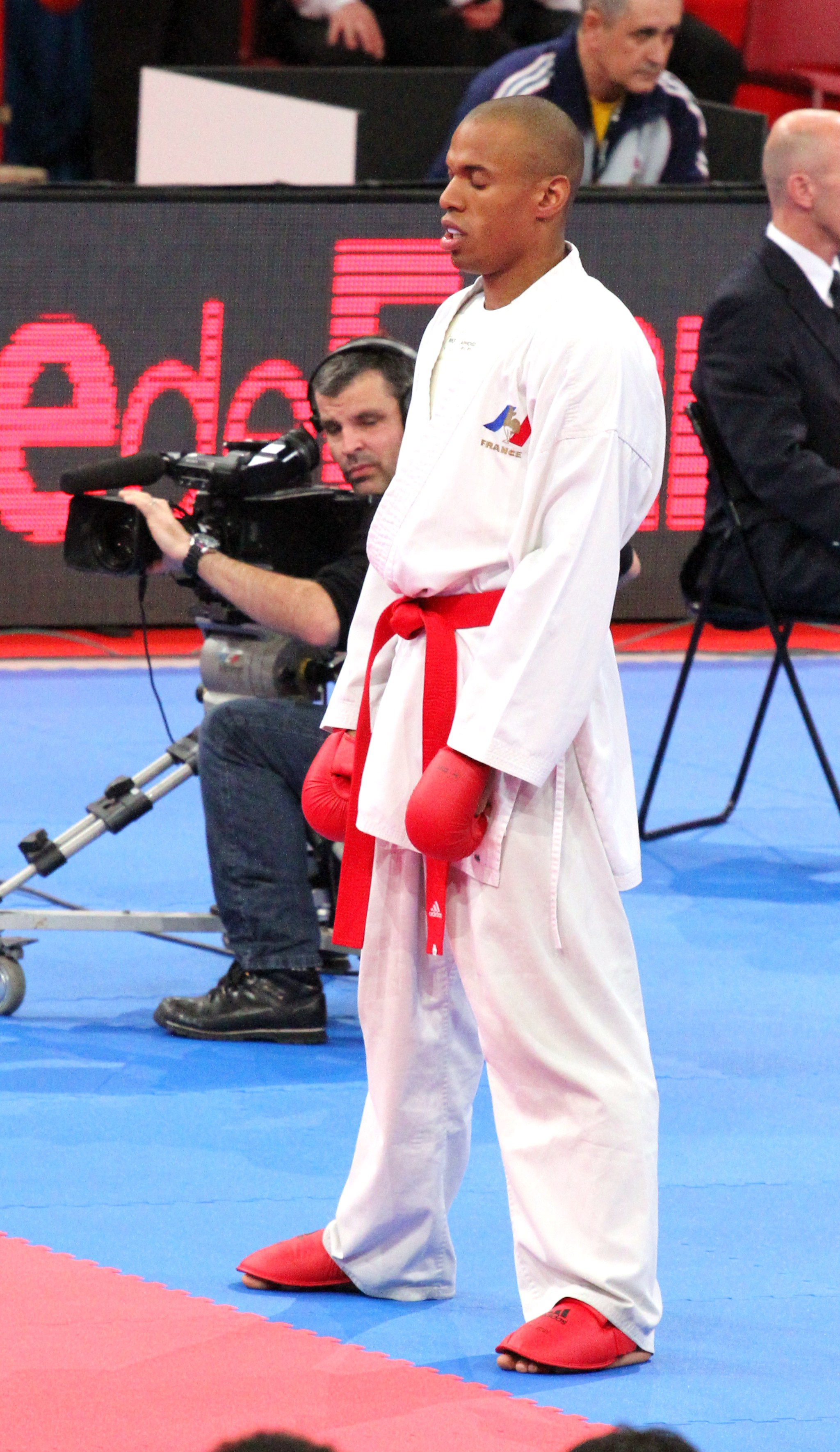 Kenji Grillon Karate World Champion 2012